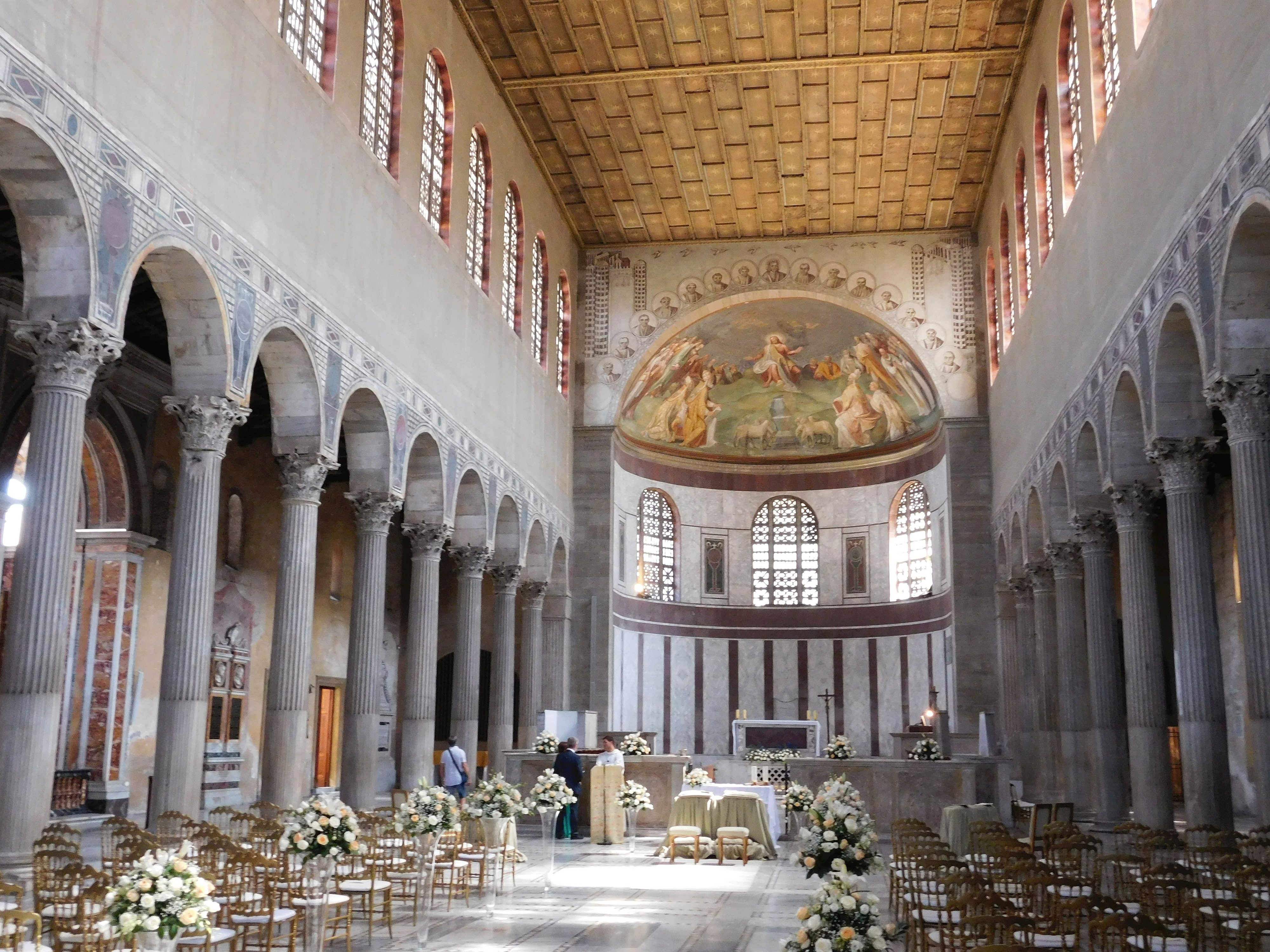 Rome, Basilica of Saint Sabina